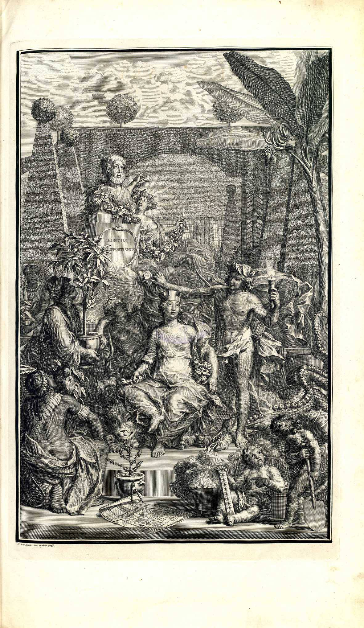 Frontispiece by Jan Wandelaar (1690-1759) of Linnaeus, C. (1738), Hortus Cliffortianus. The plate shows Mother Earth, seated on a lion and lioness, holding the keys to the garden. At her feet are a pot with Cliffortia and a plan of the Hartekamp garden. To the left a negress brings her an Aloe from Africa, an Arabian woman offers Coffea arabica from Asia and a befeathered American indian brings Hernandia from America. On a pedestal is a bust, possibly portraying George Clifford. On the right is a banana in flower and fruit. A young god Apollo, with the head of Linnaeus, steps forward, bringing light in his left hand and with his right hand casting aside the shroud of darkness around the goddess. Underfoot he tramples the dragon of falsehood, a reference to the counterfeit Hydra at Hamburg exposed as a fraud by Linnaeus while on his way to Holland. (desription summarized from Stearn, W.T., (1957), in Ray Society, Species Plantarum, A facsimile of the first edition: 46)